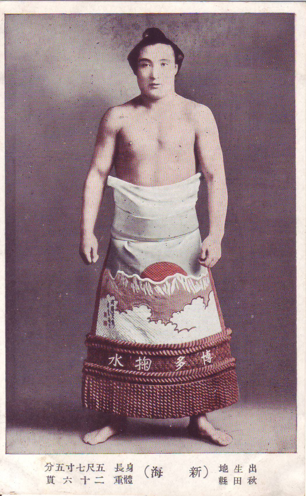 Postcard of Shinkai Kozo (sumo wrestler. Sekiwake).